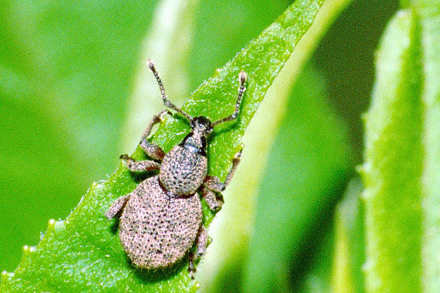 Picture taken in Commanster, Belgian High Ardennes . Species: Peritelus sphaeroides